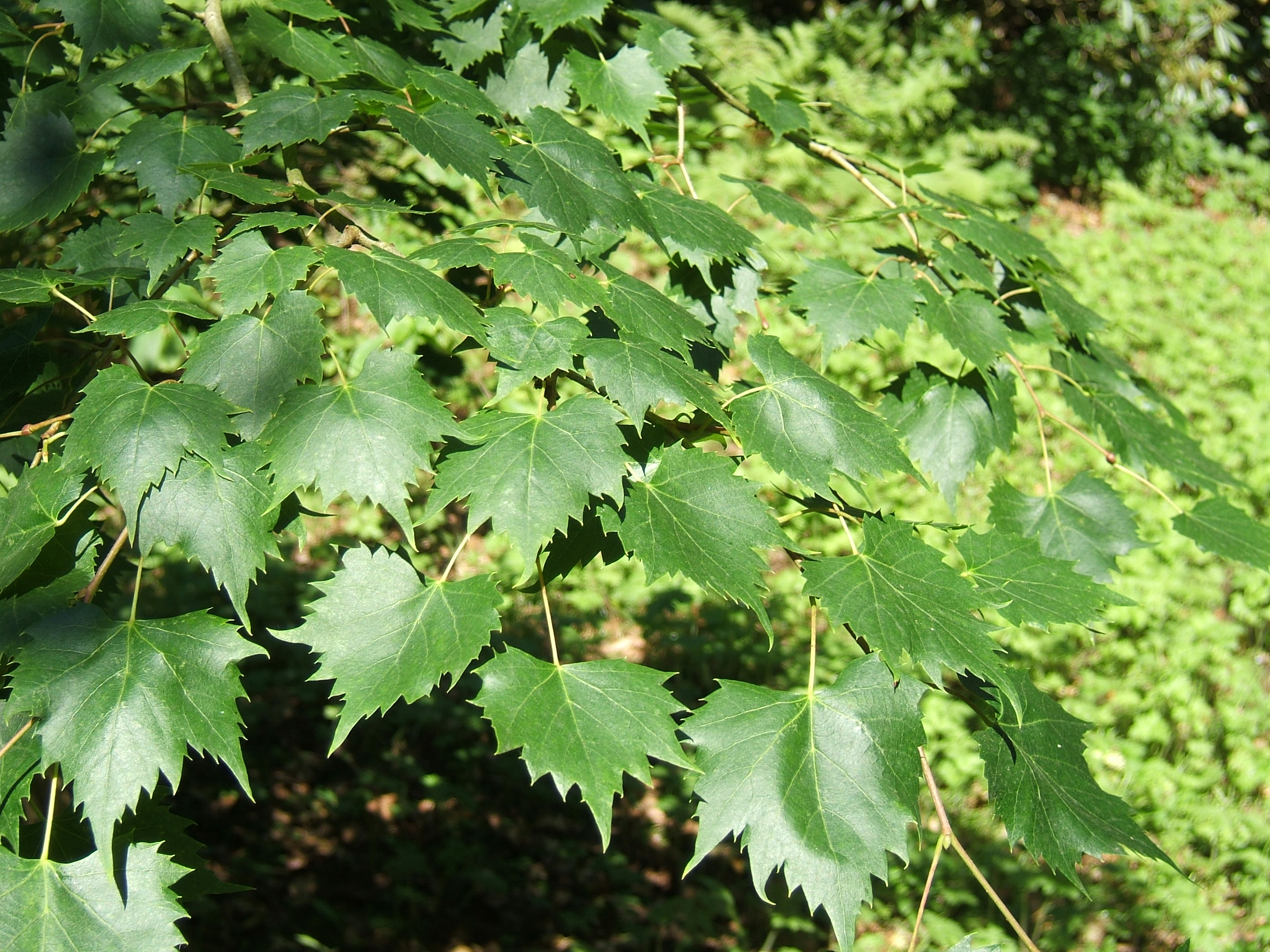 Tilia mongolica, cultivated, Wallington Hall, Northumberland, UK